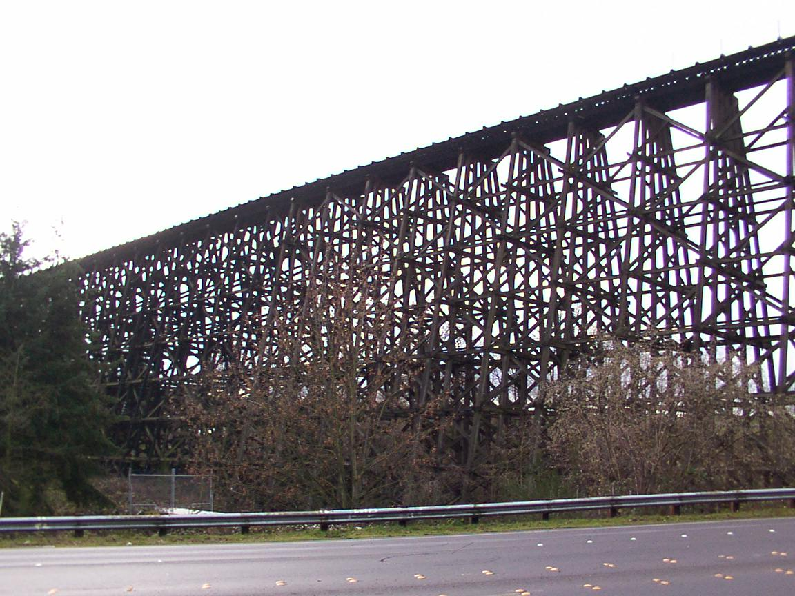 created by user brianhe 2005-12-28 Taken from near Bellevue fire station #7 on east side of trestle.